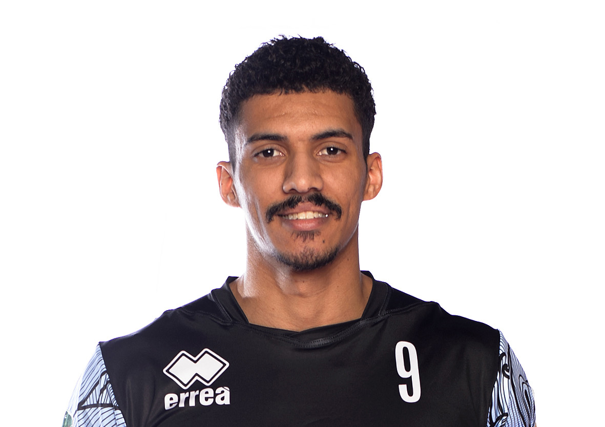 profile image of Carlos Eduardo Barreto Silva, volleyball player (BRA)